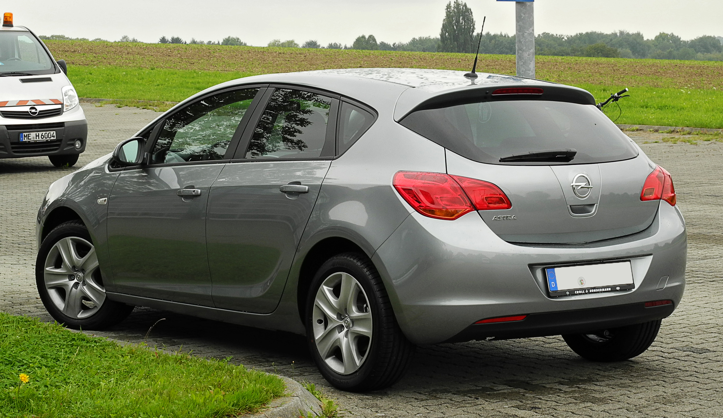 Opel Astra Design Edition (J)